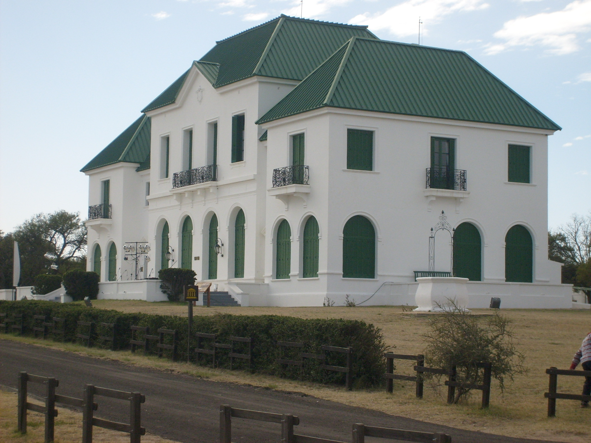 Hunting lodge built by Pedro Luro between 1907 and 1911 in La Pampa Province, Argentina. The house currently serves as the welcome center and offices of the Parque Luro Nature Reserve.